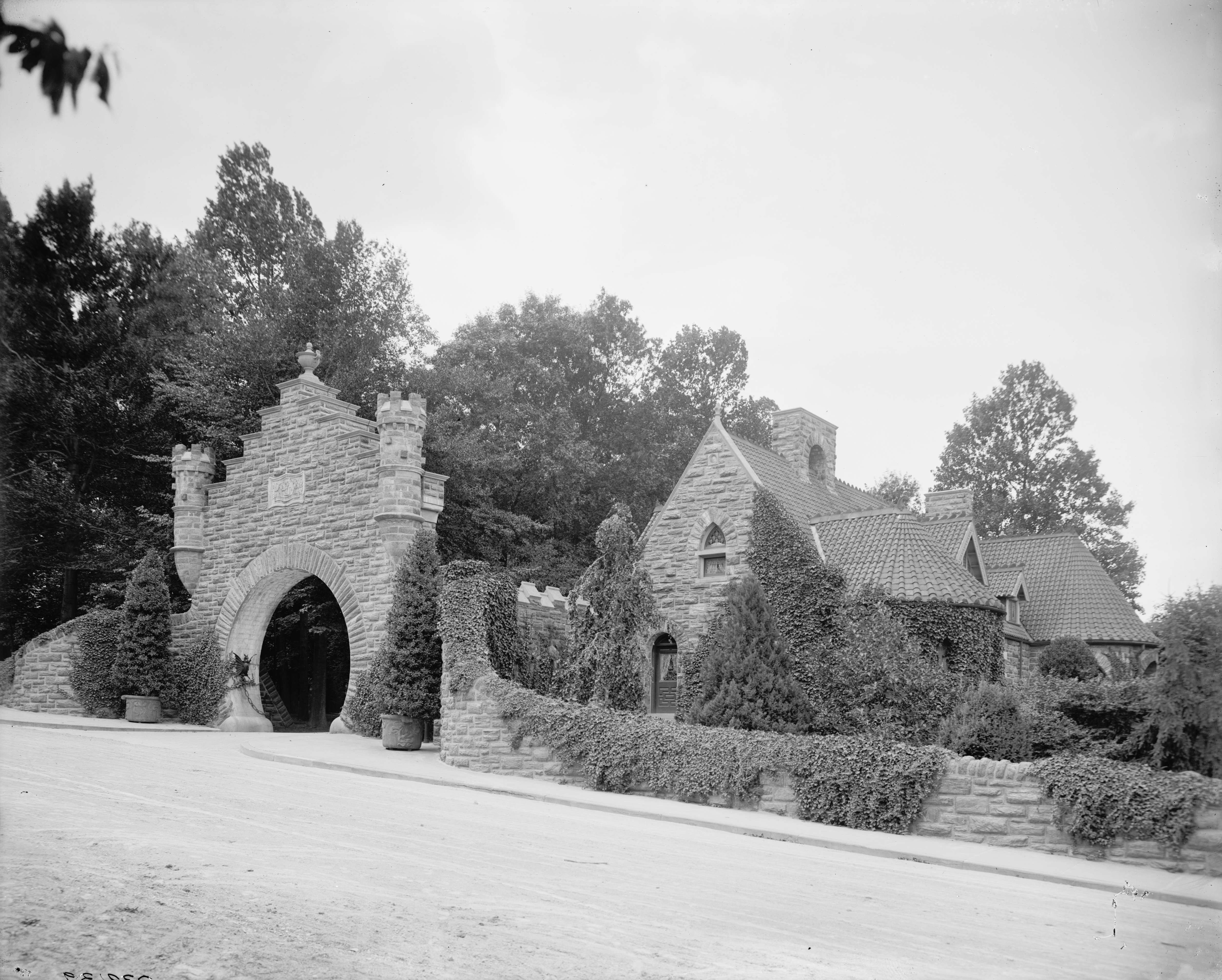 "Lodge Gate, Harrison Estate, Lime Kiln Pike, Philadelphia [sic. Glenside], Pa." Horace Trumbauer, architect. Now Arcadia University.